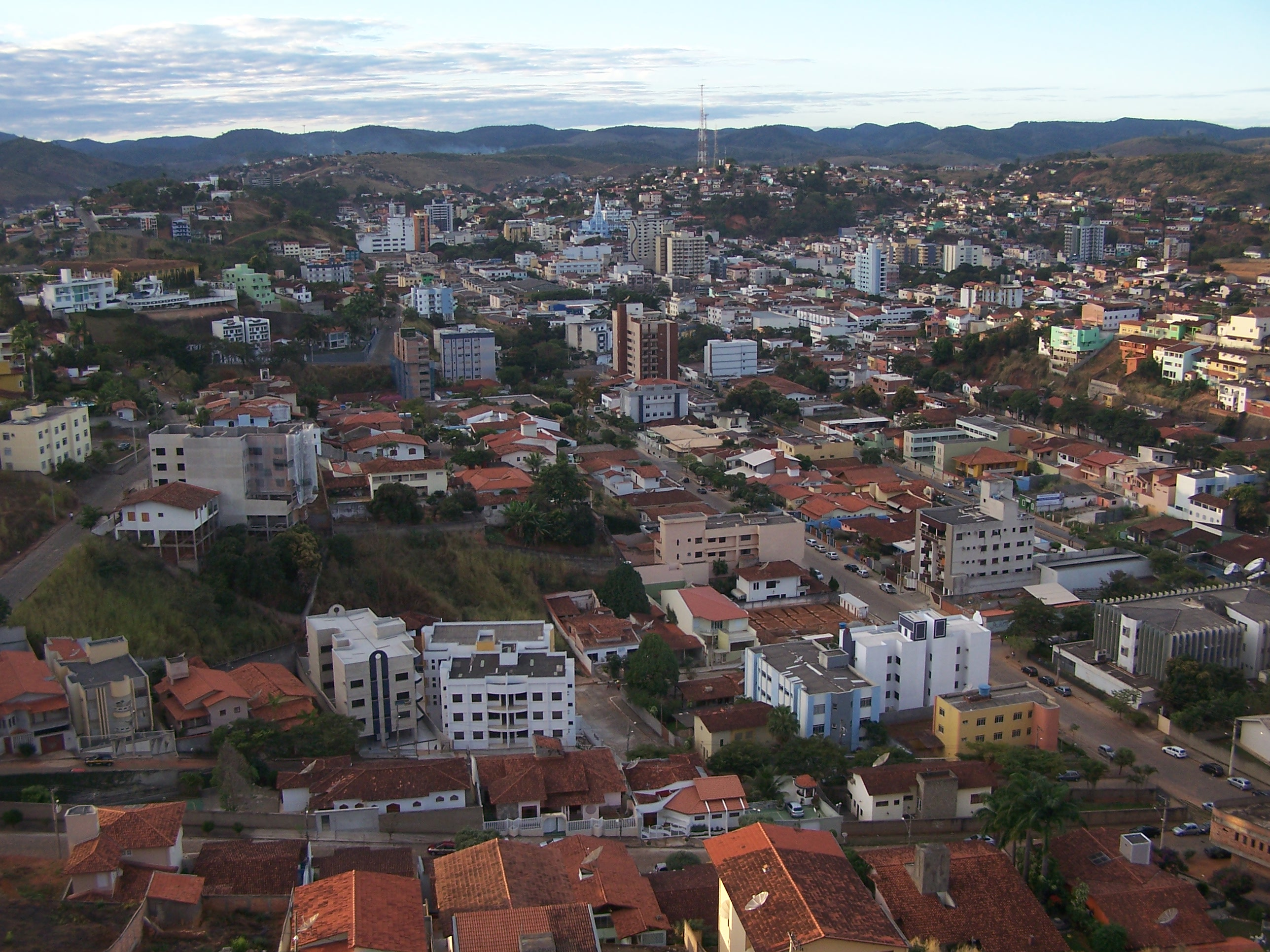 Teofilo Otoni MG downtown view